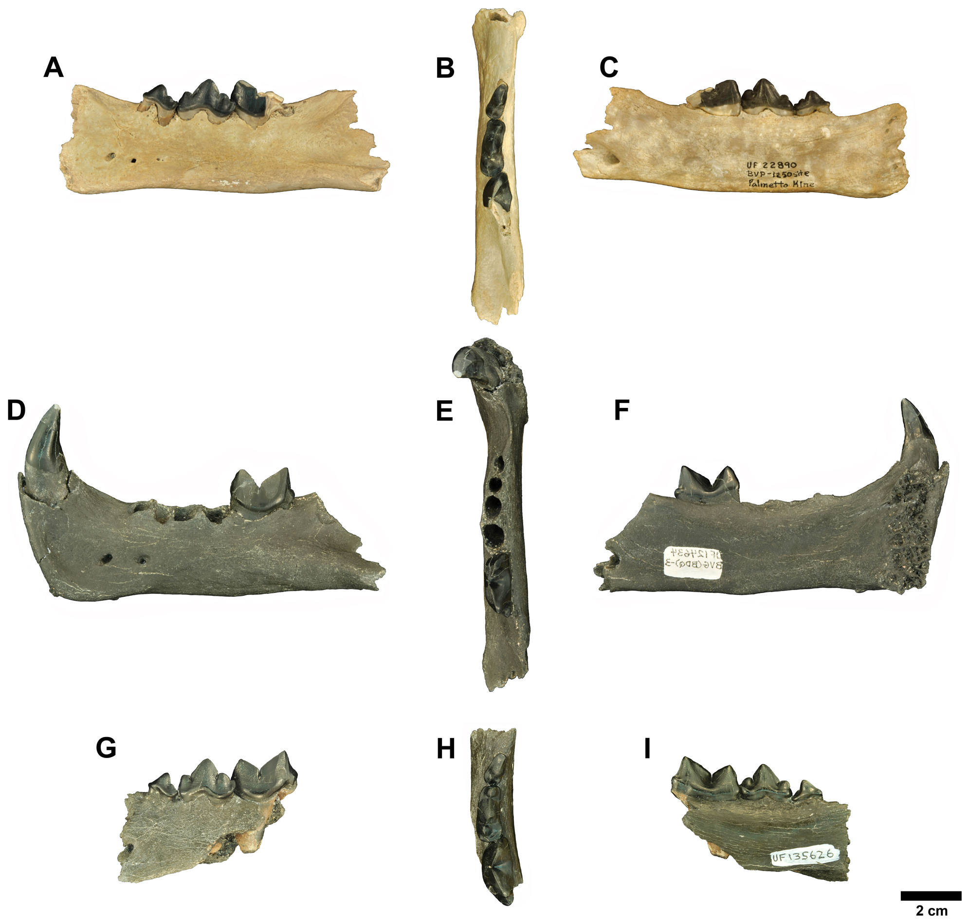 Examples of the Palmeto Fauna machairodont, Rhizosmilodon fiteae. Original described specimen UF 22890 [7] (A–C), proposed holotype UF 124634 (D–F), and paratype UF 135626 (G–I) in lateral, occlusal, and lingual views respectively. Images in D–F reversed to match the other two specimens.